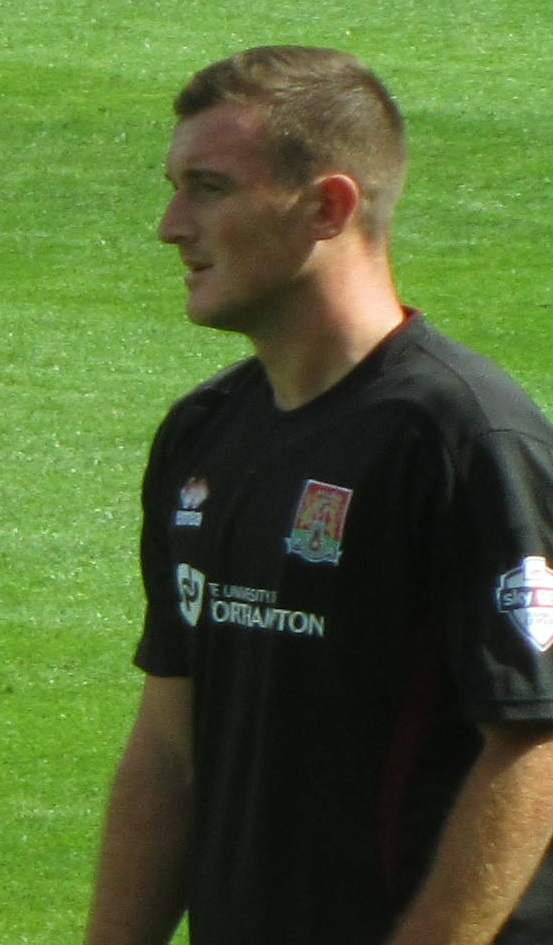 Lee Collins.